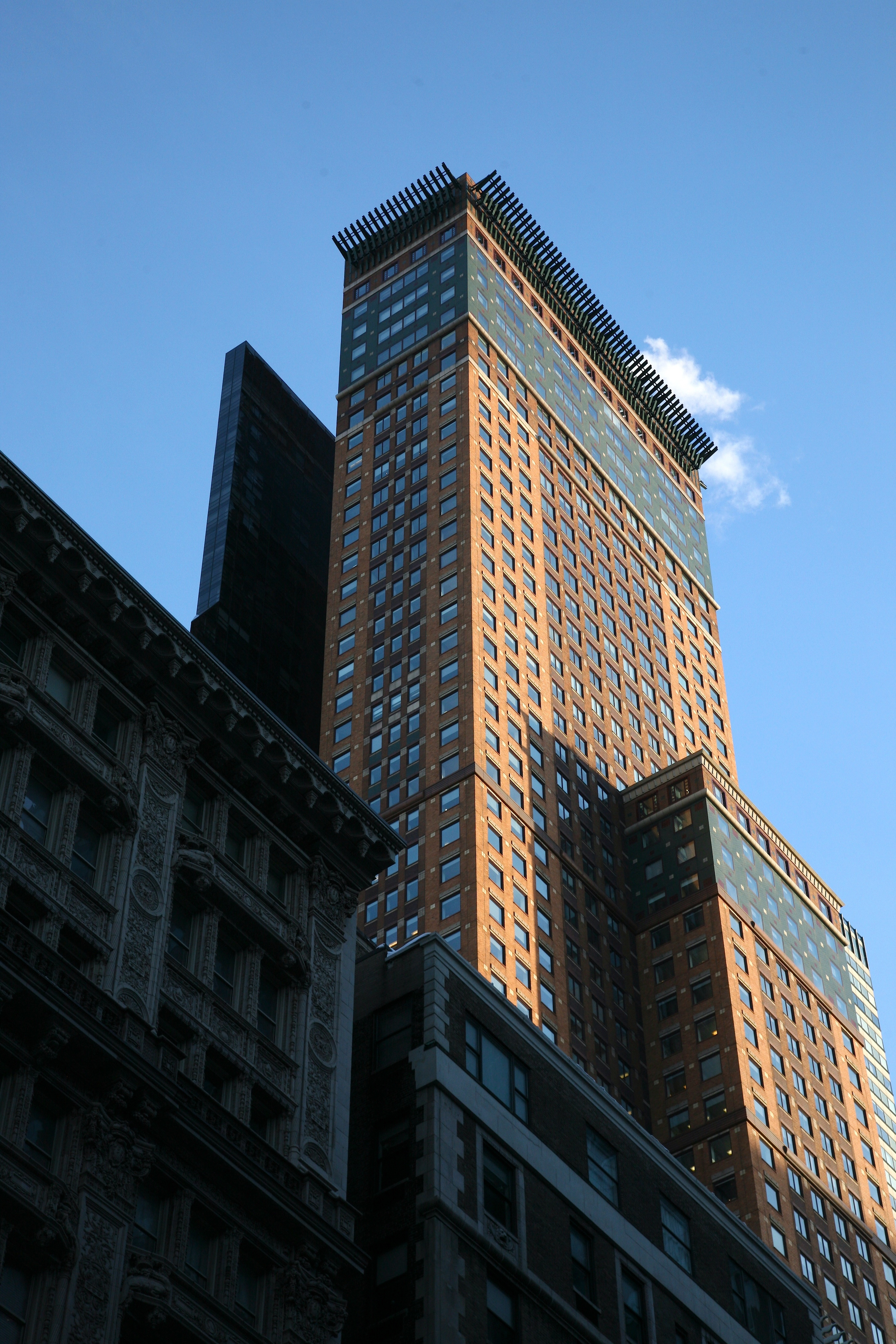 New York City, Manhattan, Midtown West, W 57th St. Carnegie Hall Tower